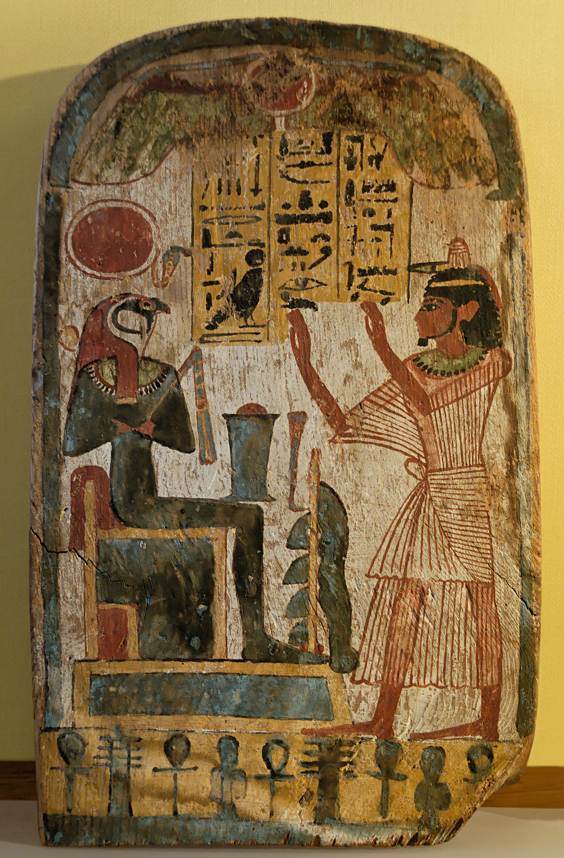 Priest Renpetmaa praying Ra-Horakhty. Coated and painted wood, ca. 900 BC (22nd Dynasty).